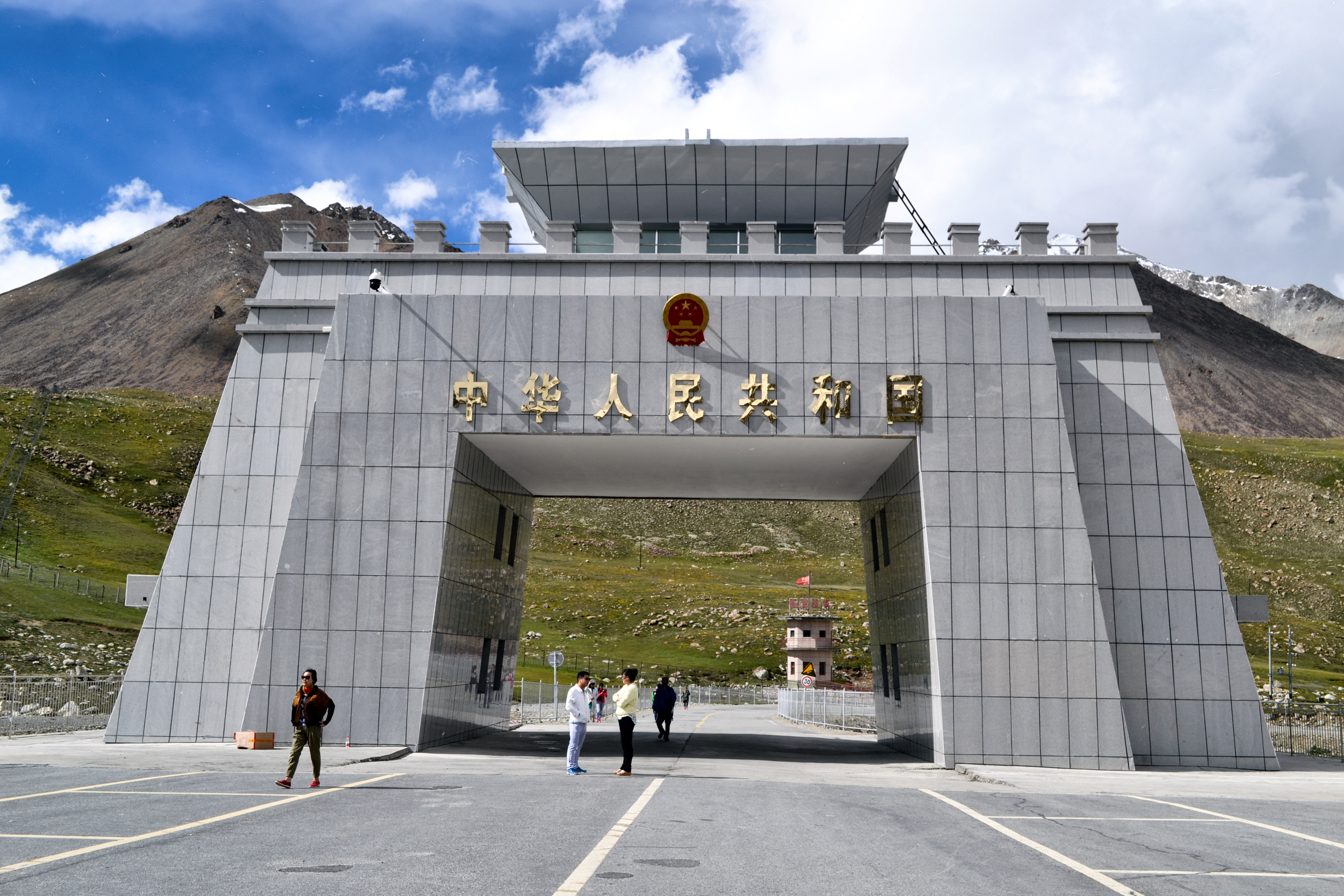 View of Khunjerab Pass point. a symbol of Pakistan china friendship at pakistan, china border